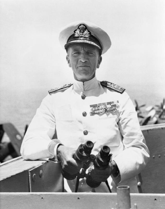 Vice Admiral W G Tennant, Flag Officer Levant and East Mediterranean, visiting HMS Colossus in Colombo, Ceylon.